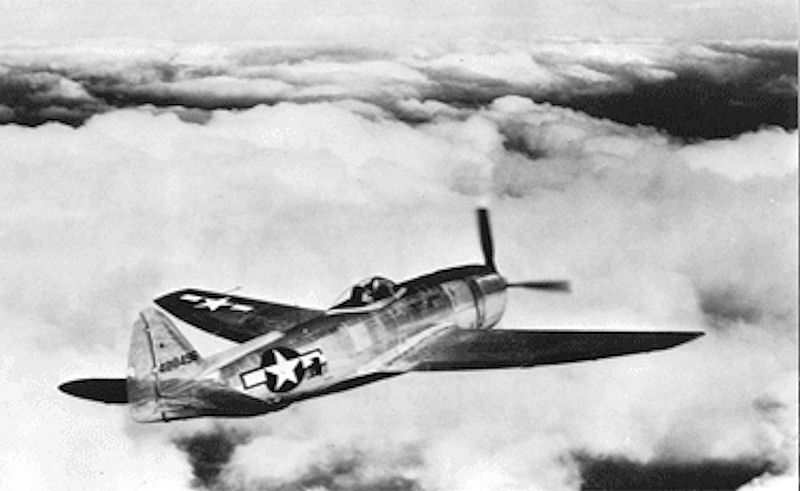 139th Fighter Squadron F-47N Thunderbolt